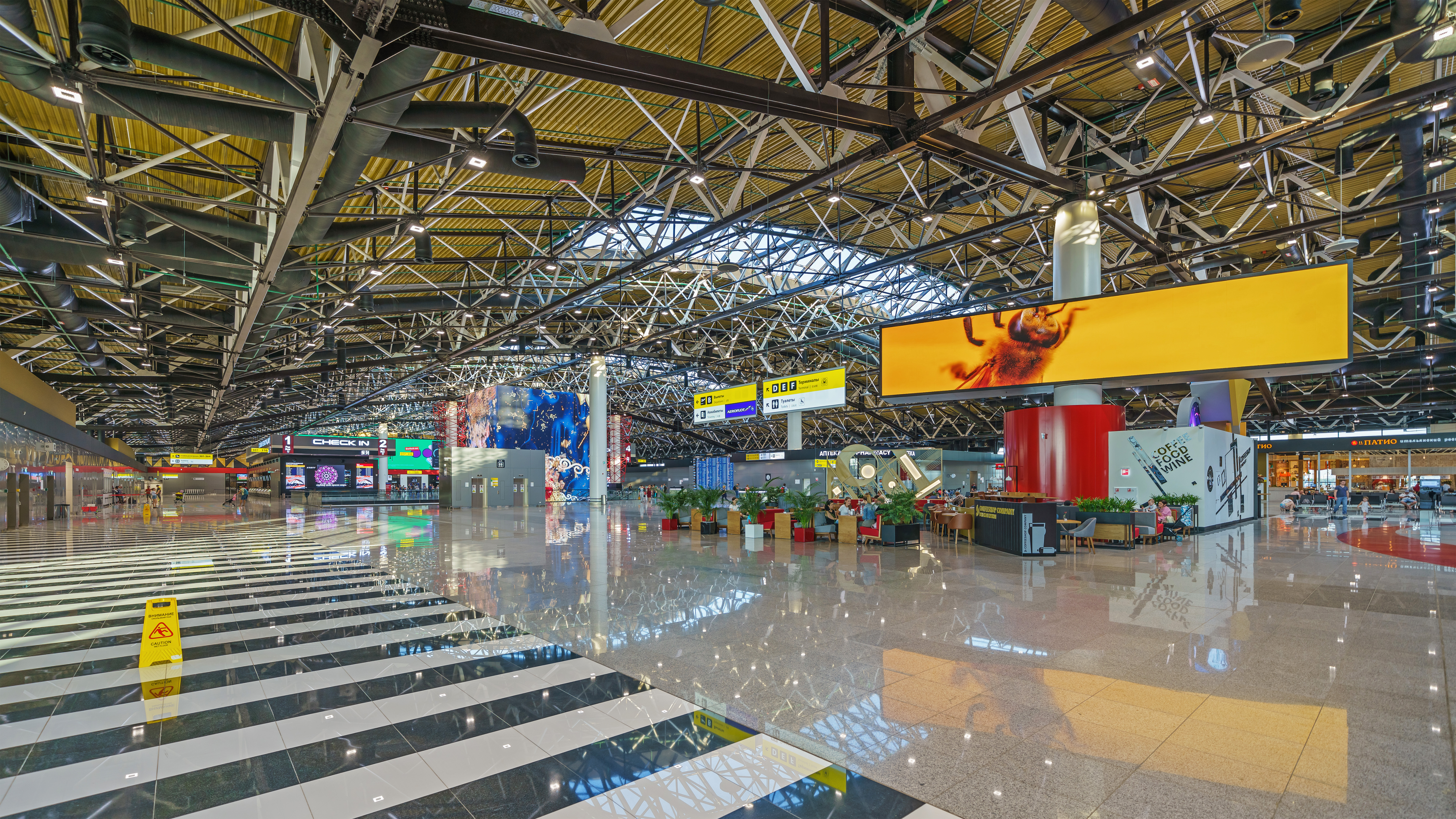 Interior of new Terminal B of Sheremetyevo Int. Airport, Moscow Oblast, Russia.